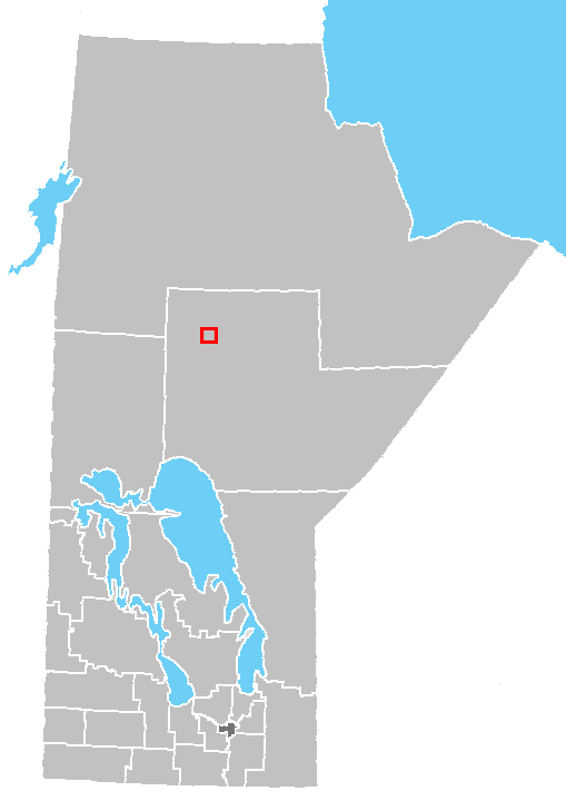 Location of Thompson, Manitoba